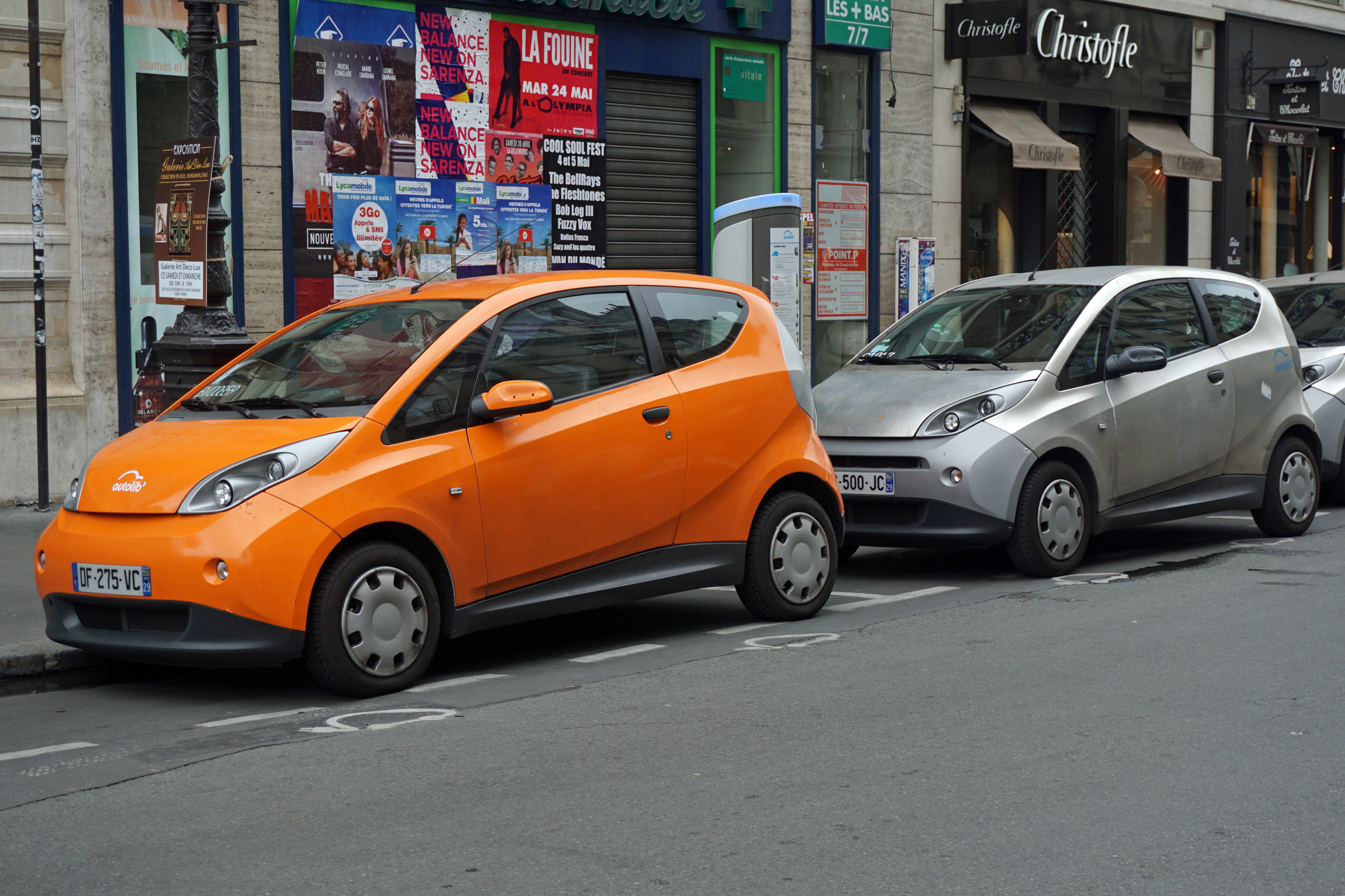 Autolib carsharing station in Paris, France